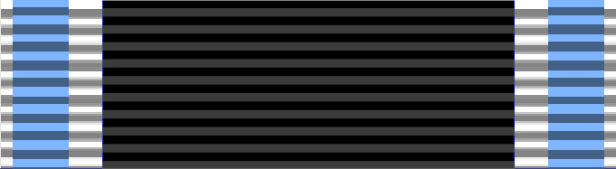 Max Joseph Order's Ribbon - Bavaria (DE)